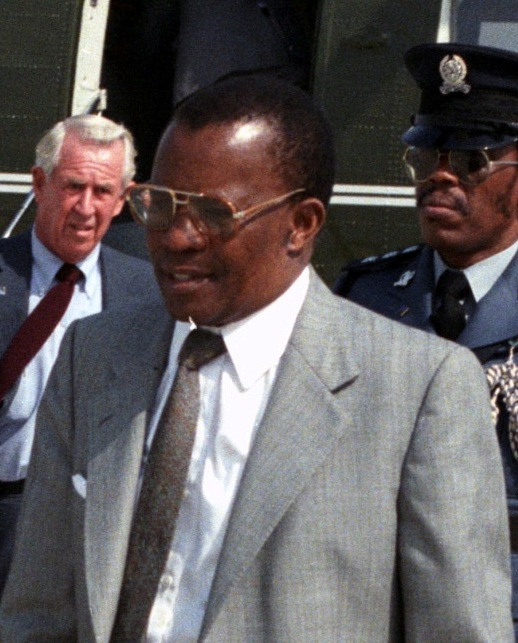 Dr. Quett K.J. Masire, President of the Republic of Botswana, is escorted across the runway apron by Brigadier General Albert C. Guidotti (right), commander, 76th Airlift Division. Dr. Masire is preparing to depart after a state visit.